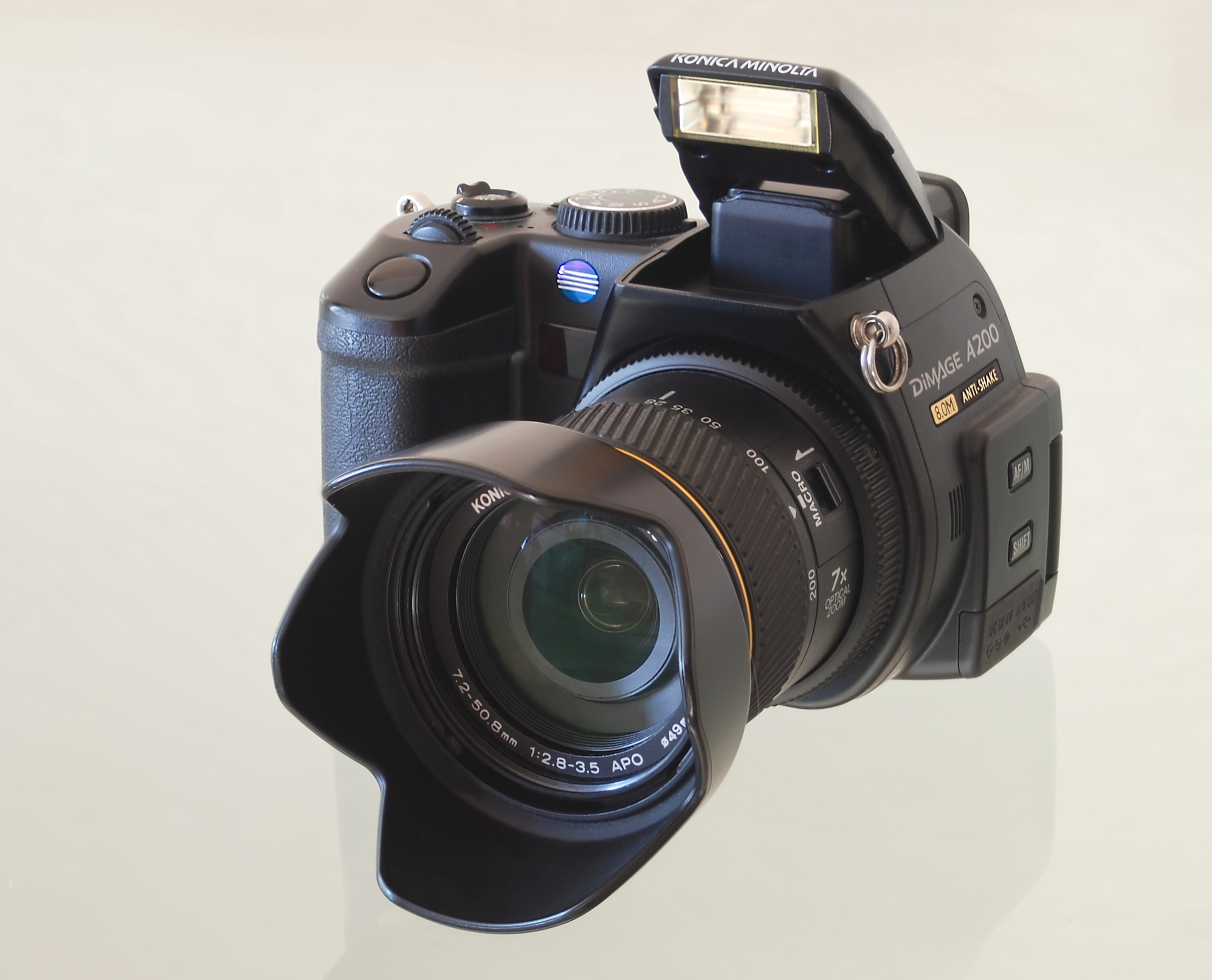 A Konica Minolta DIMAGE A200 (2005). Composite image of seven photos, using focus bracketing.